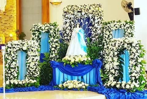 The statue of the Blessed Virgin Mary during the 2015 fiesta